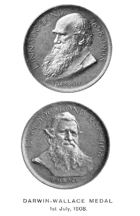 Both sides of Darwin-Wallace medal awarded to Wallace at 1908 Linnean society meeting celebrating 50th anniversary of reading of Darwin and Wallace's papers on natural selection